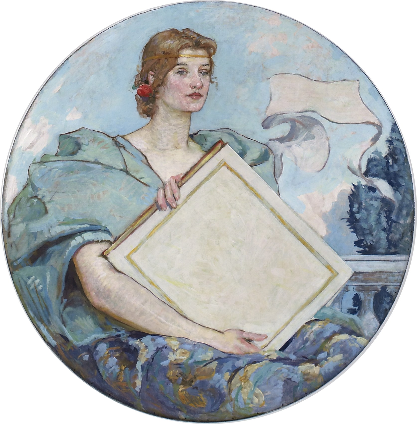 Knowledge, mural by Robert Lewis Reid. Second Floor, North Corridor. Library of Congress Thomas Jefferson Building, Washington, D.C. Caption underneath reads: IGNORANCE IS THE CVRSE OF GOD KNOWLEDGE IS THE WING WHEREWITH WE FLY TO HEAVEN.